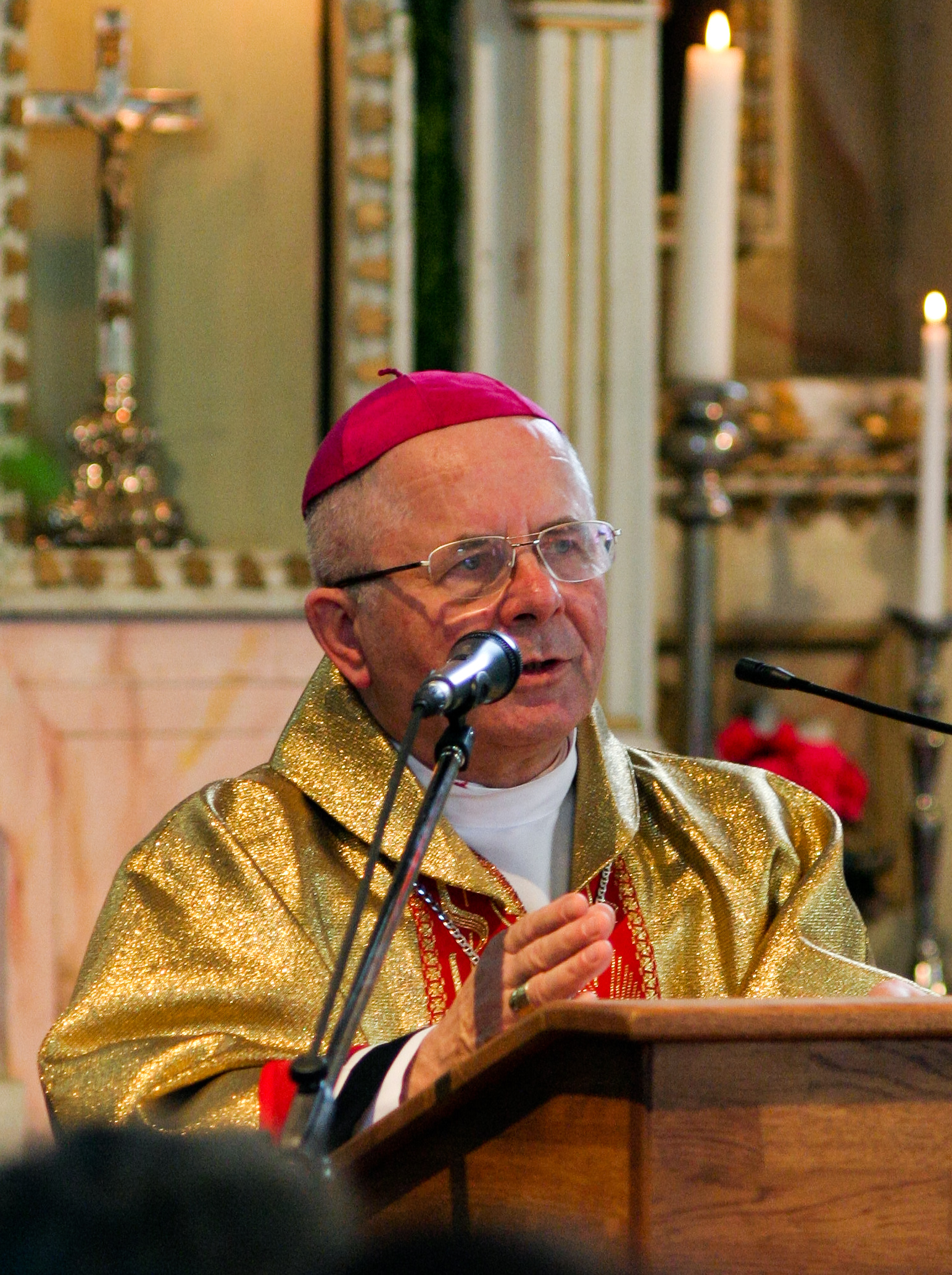 Achbishop of Kaunas, Sigitas Tamkevičius